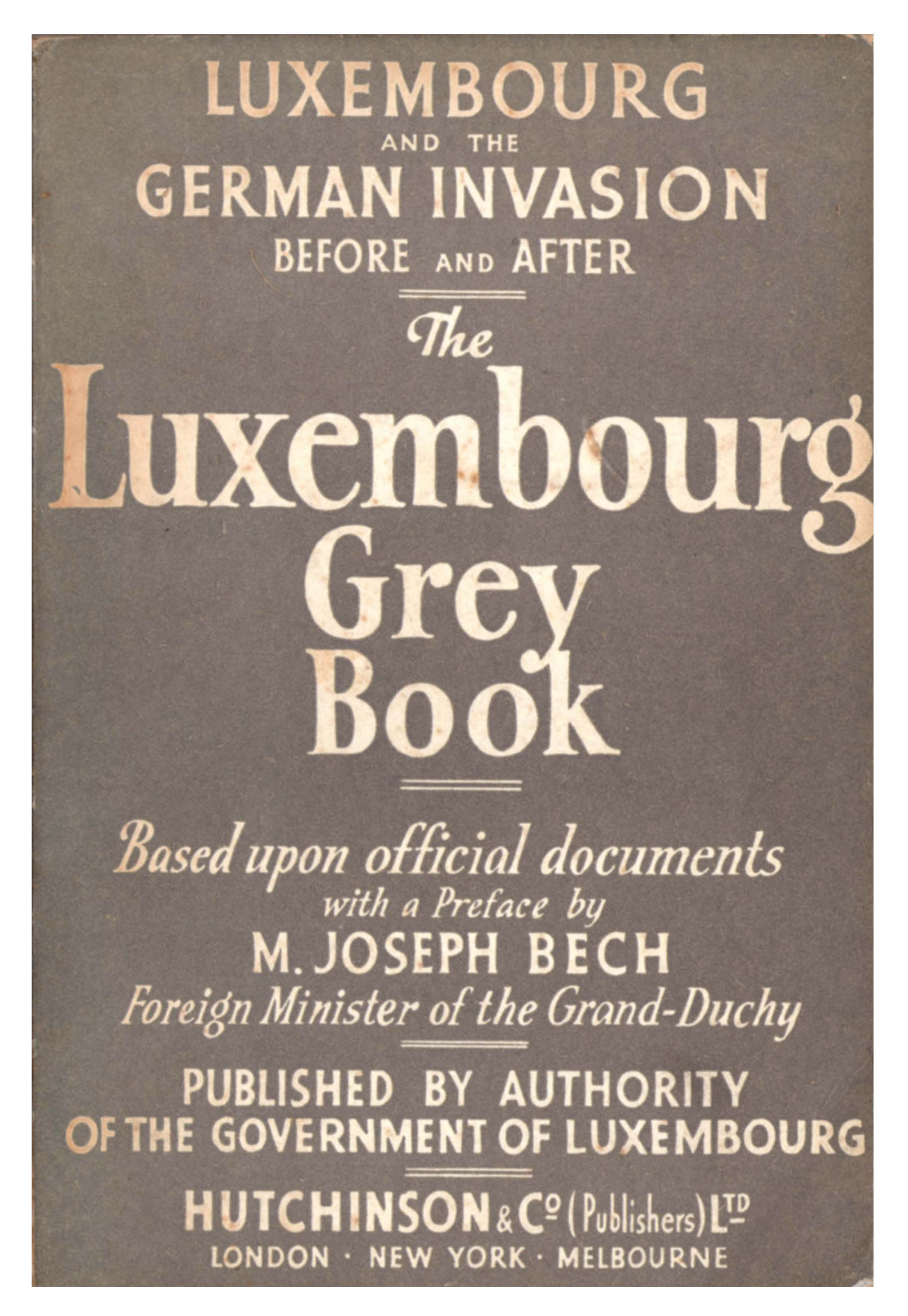 Cover of The Luxembourg Grey Book: Luxembourg and the German Invasion, Before and After published in 1942 by the Luxembourgish government in London and with a foreword by Joseph Bech.